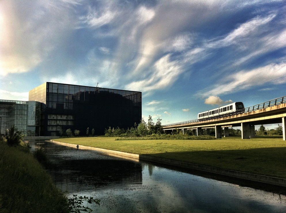 DR Concert Hall and the metro tracks in Amagerbro, Copenhagen, Denmark.